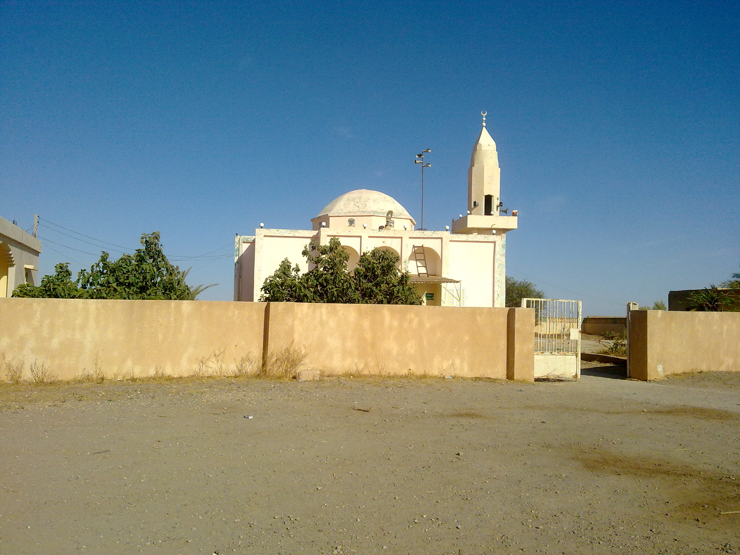 El Luweifiya (اللويفية) mosque.